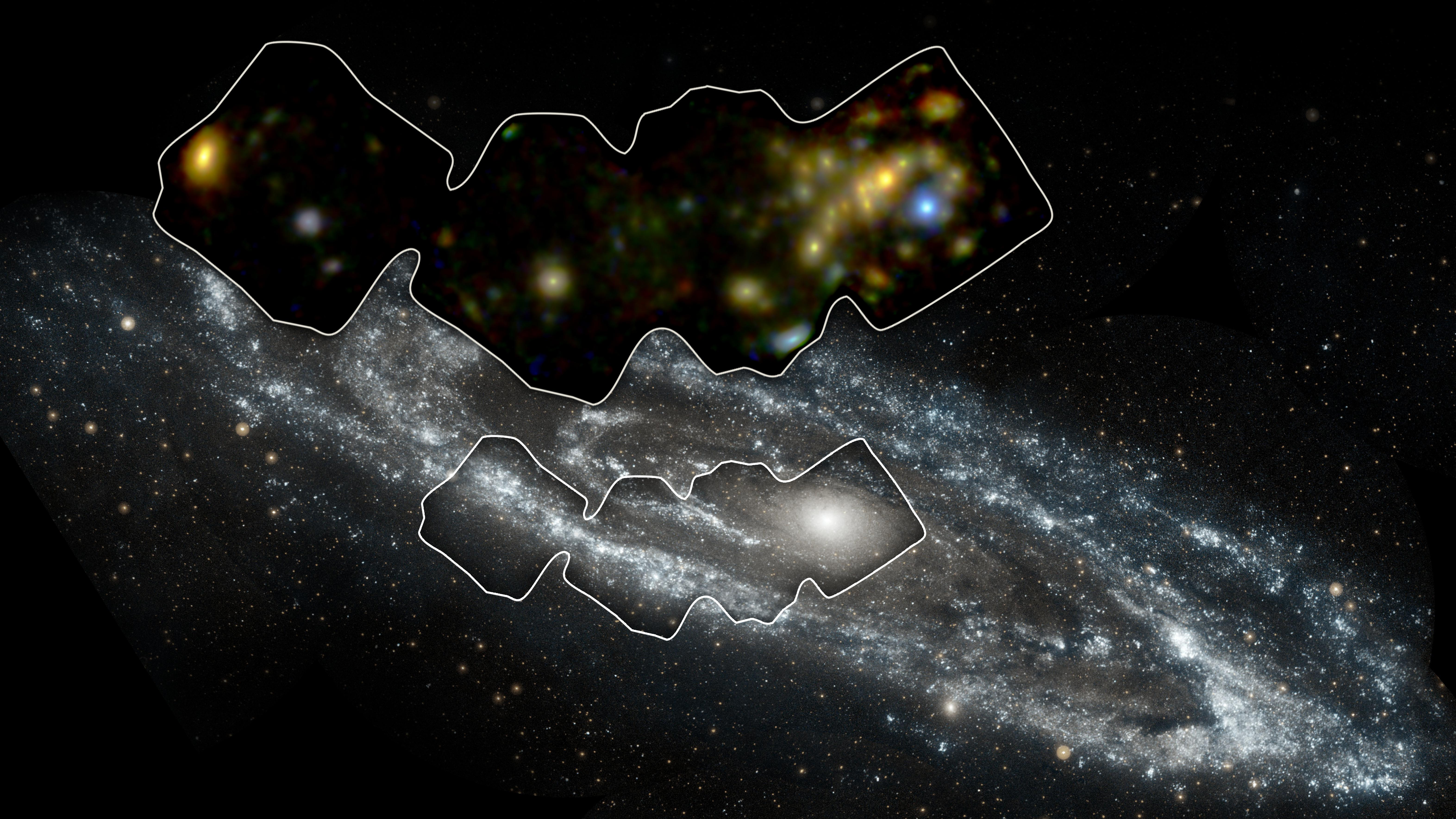 NASA's Nuclear Spectroscope Telescope Array, or NuSTAR, has imaged a swath of the Andromeda galaxy -- the nearest large galaxy to our own Milky Way galaxy. NuSTAR's view (inset) shows high-energy X-rays coming mostly from X-ray binaries, which are pairs of stars in which one "dead" member feeds off its companion. The dead member of the pair is either a black hole or neutron star. NuSTAR can pick up even the faintest of these objects, providing a better understanding of their population, as a whole, in Andromeda. The findings ultimately help astronomers gather clues about similar objects in the very distant universe. The background image of Andromeda was taken by NASA's Galaxy Evolution Explorer in ultraviolet light. Andromeda is a spiral galaxy like our Milky Way but larger in size. It lies 2.5 million light-years away in the Andromeda constellation.